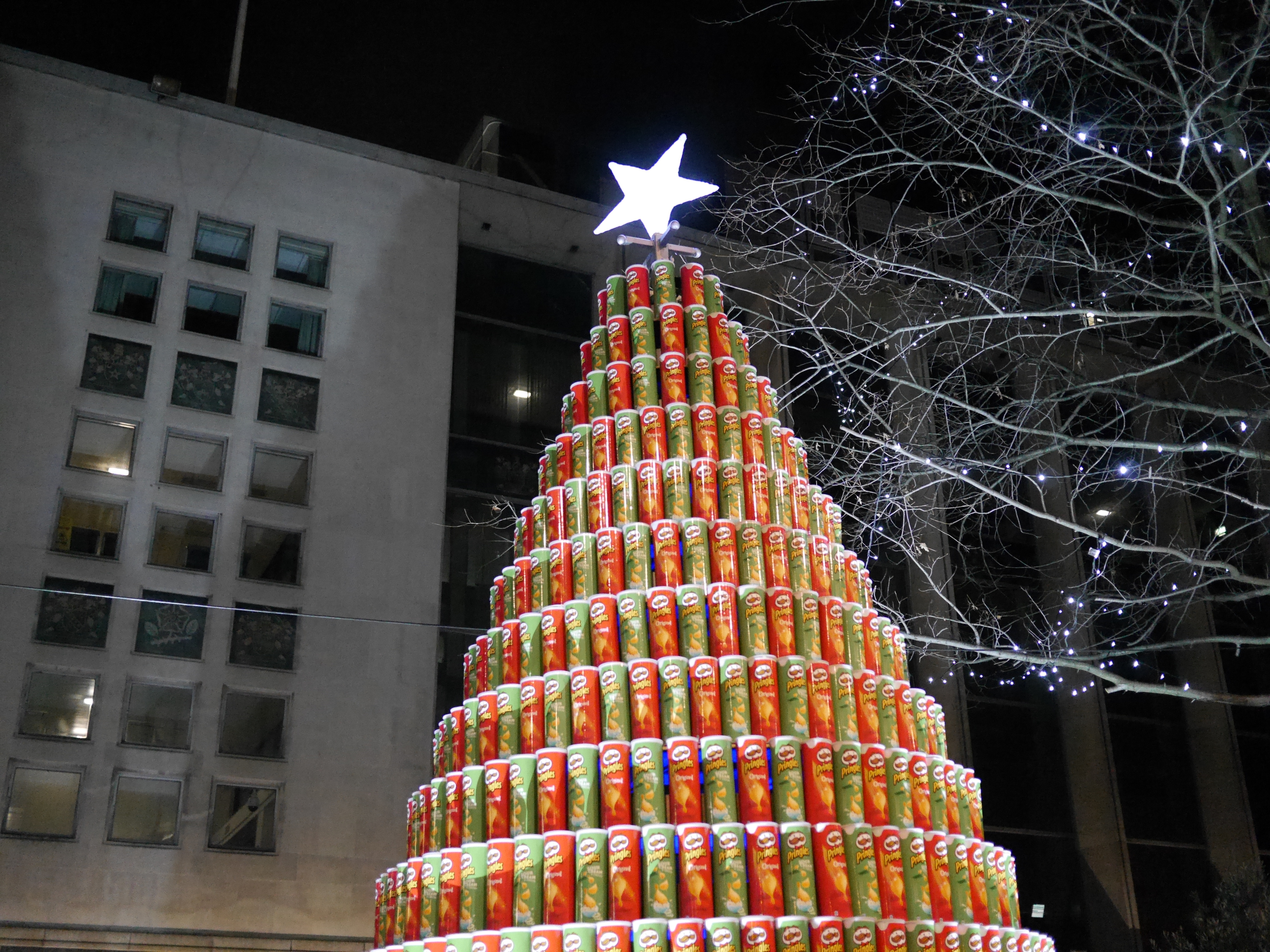 Pringles chistmas tree in Spinningfields, Manchester in 2014